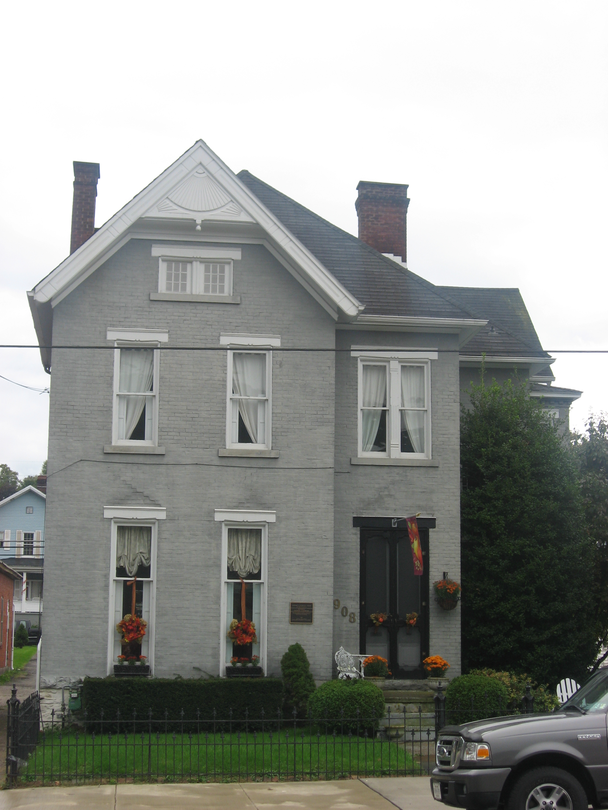 Front of the Edward G. Acheson House, located at 908 Main Street in Monongahela, Pennsylvania, United States. Built in 1890 and the home of Edward Goodrich Acheson, it was designated a National Historic Landmark in 1976.